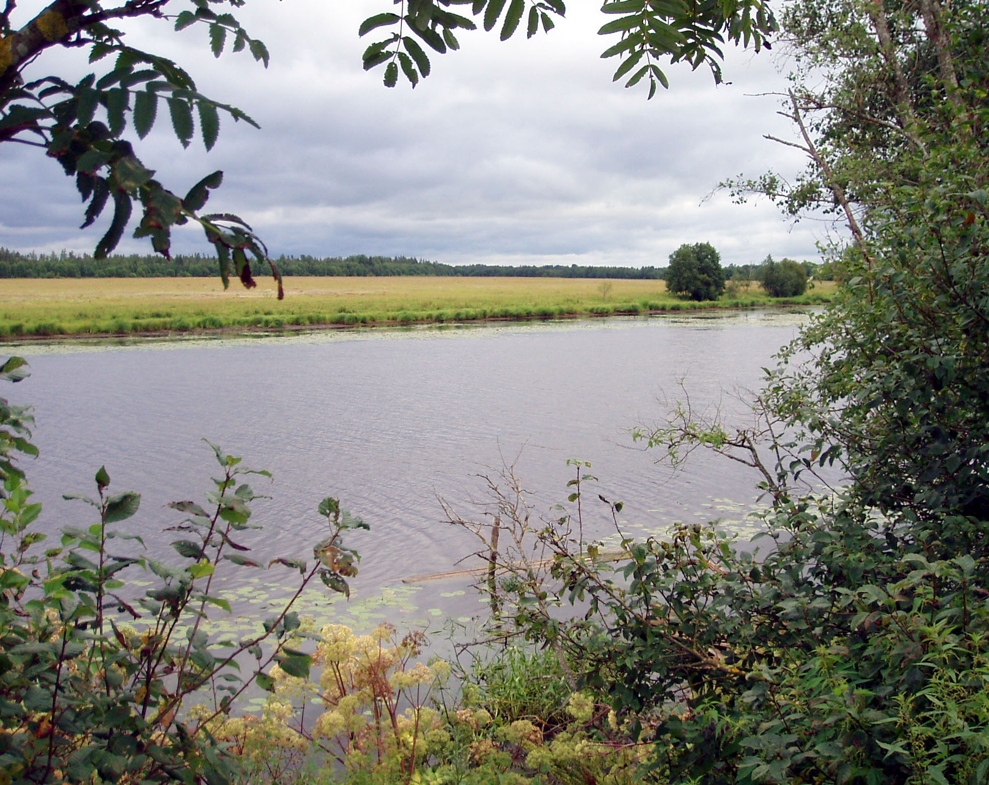 River Mertvitsa near Bolsjoje Kuzemkino in Kingiseppskij rajon in Leningradskaja oblast, Russia